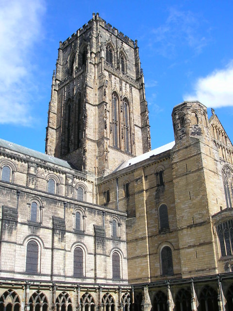 Cathedral tower. The central tower of Durham Cathedral seen from the cloisters.